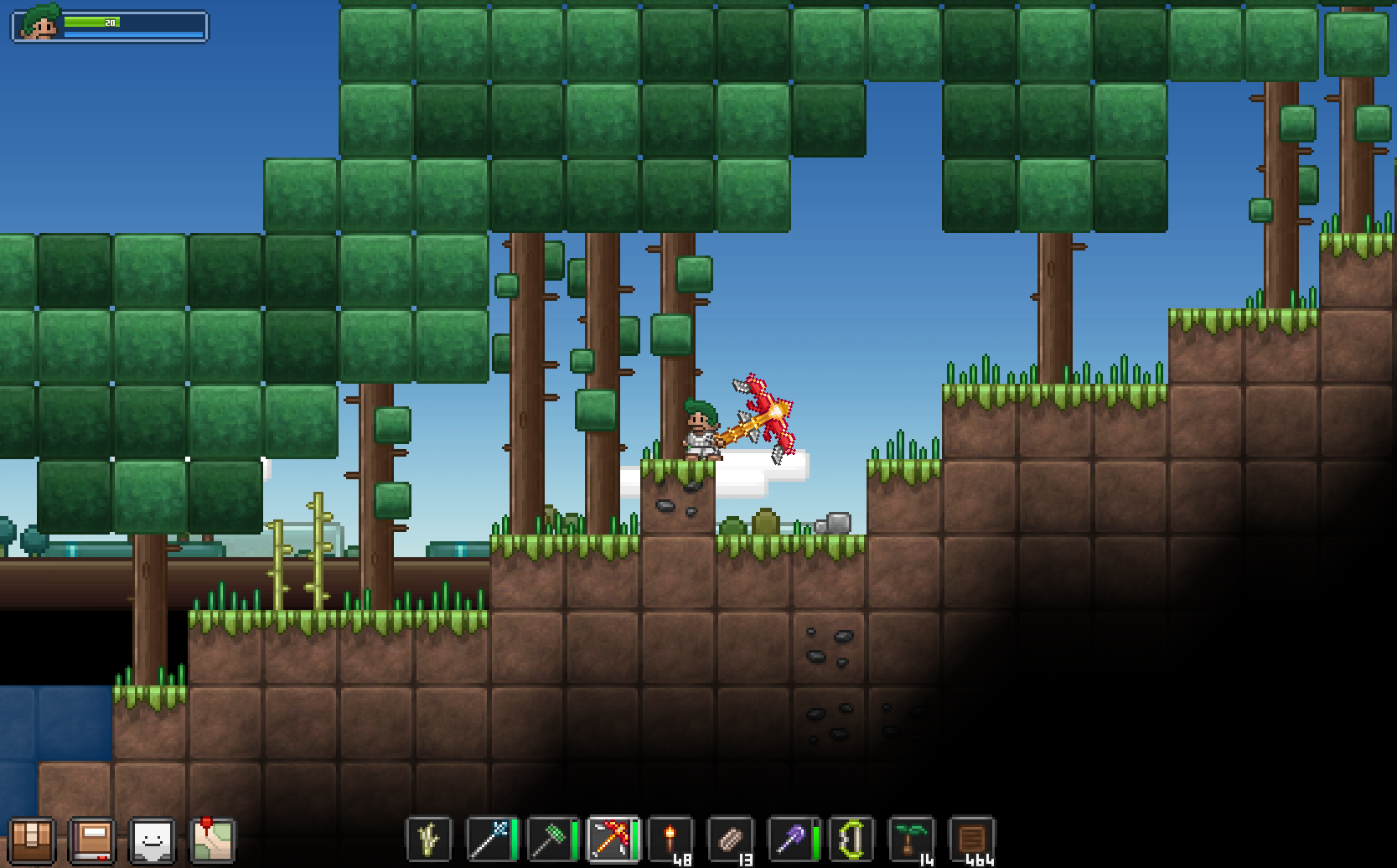 A screenshot from Windows version of Junk Jack game from Pixbits